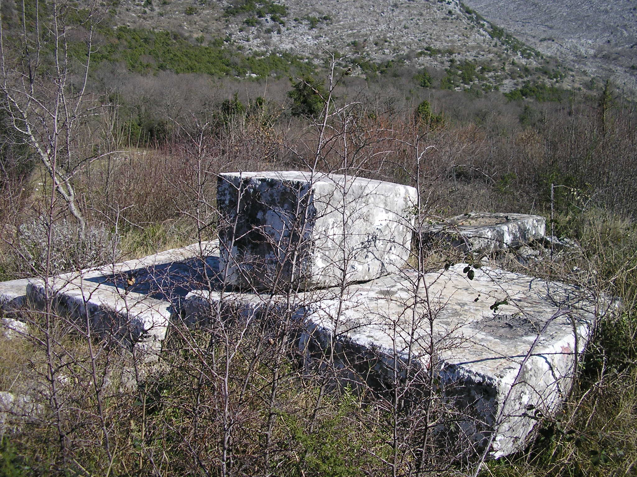 Stećak in Hutovo (Karasivica (Drijenjak))